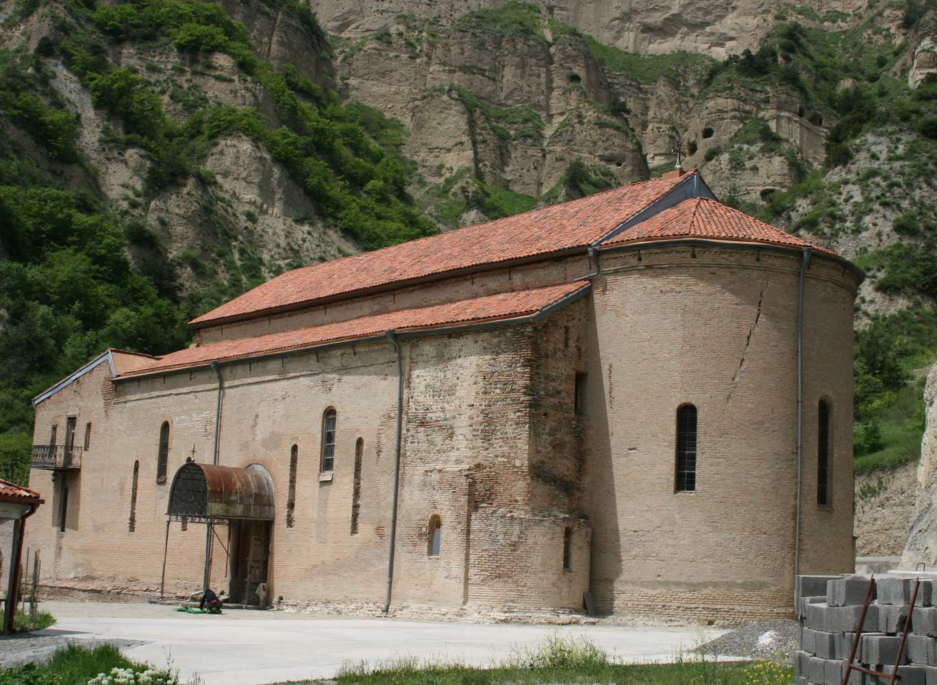 Holy Virgin church. Shio-Mgvime